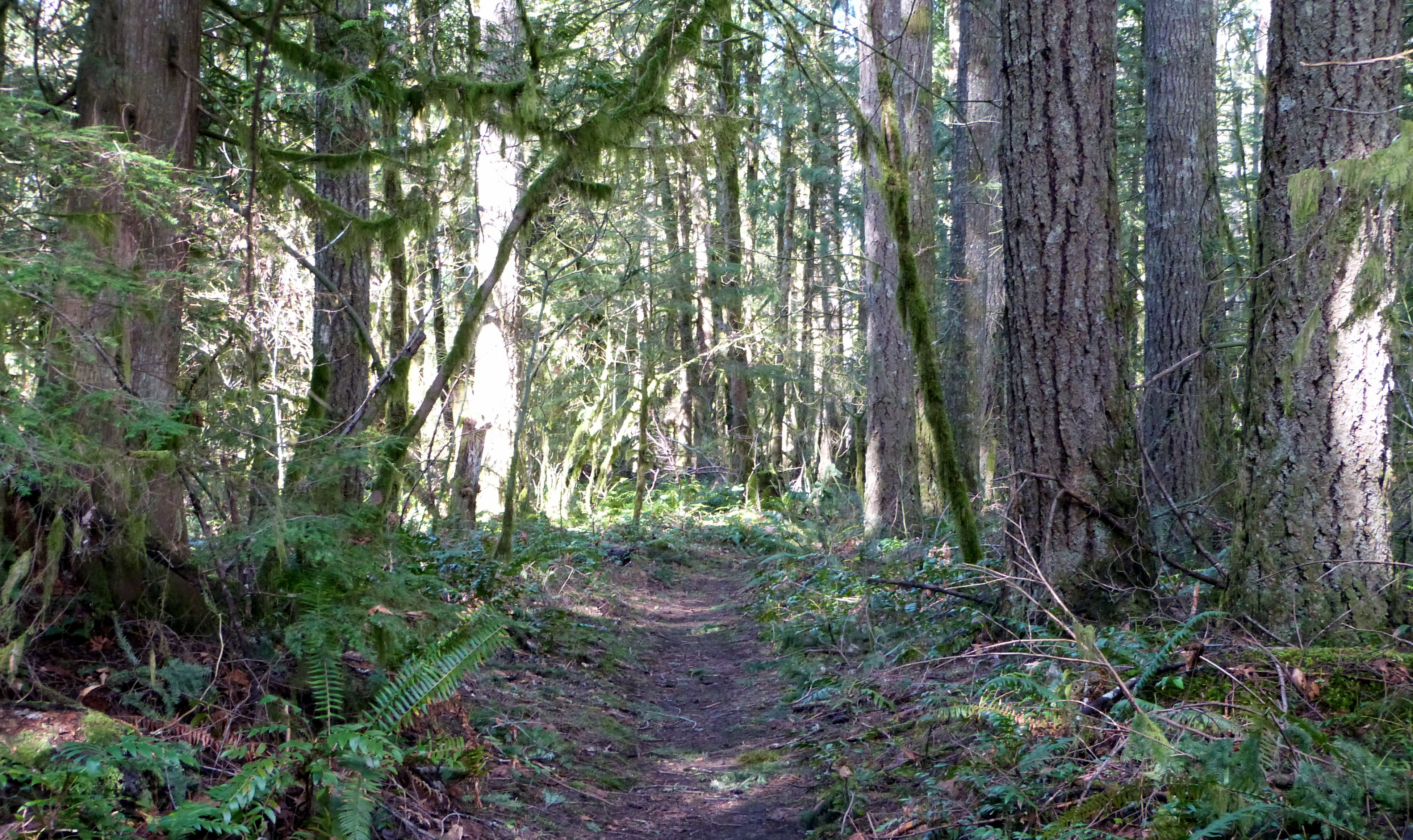 The segment of the historic Barlow Road that traverses the Wildwood Recreation Site near Wemme, Oregon, United States, is listed on the US National Register of Historic Places.